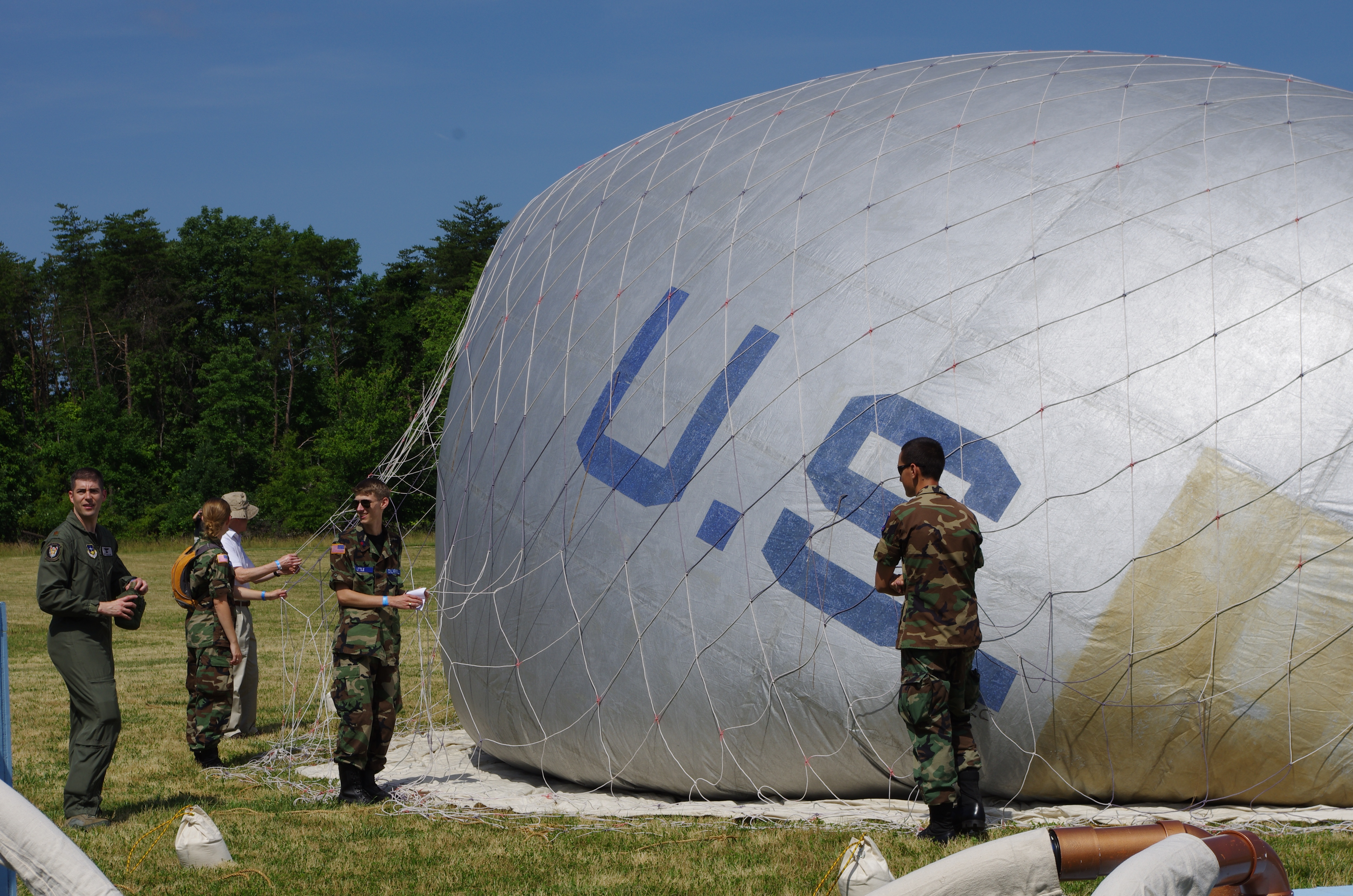 Maj. Nathan McClure, an Air Force Fellow, guides his team of Civil Air Patrol cadets in the inflation of a Civil-War era balloon near Chantilly, Va., June16, 2012. "Become a Pilot Day" at the National Air and Space Museum is an annual event informing children and students about aviation and aircraft. (U.S. Air Force Photo/Staff Sgt. Ashley Riedel)